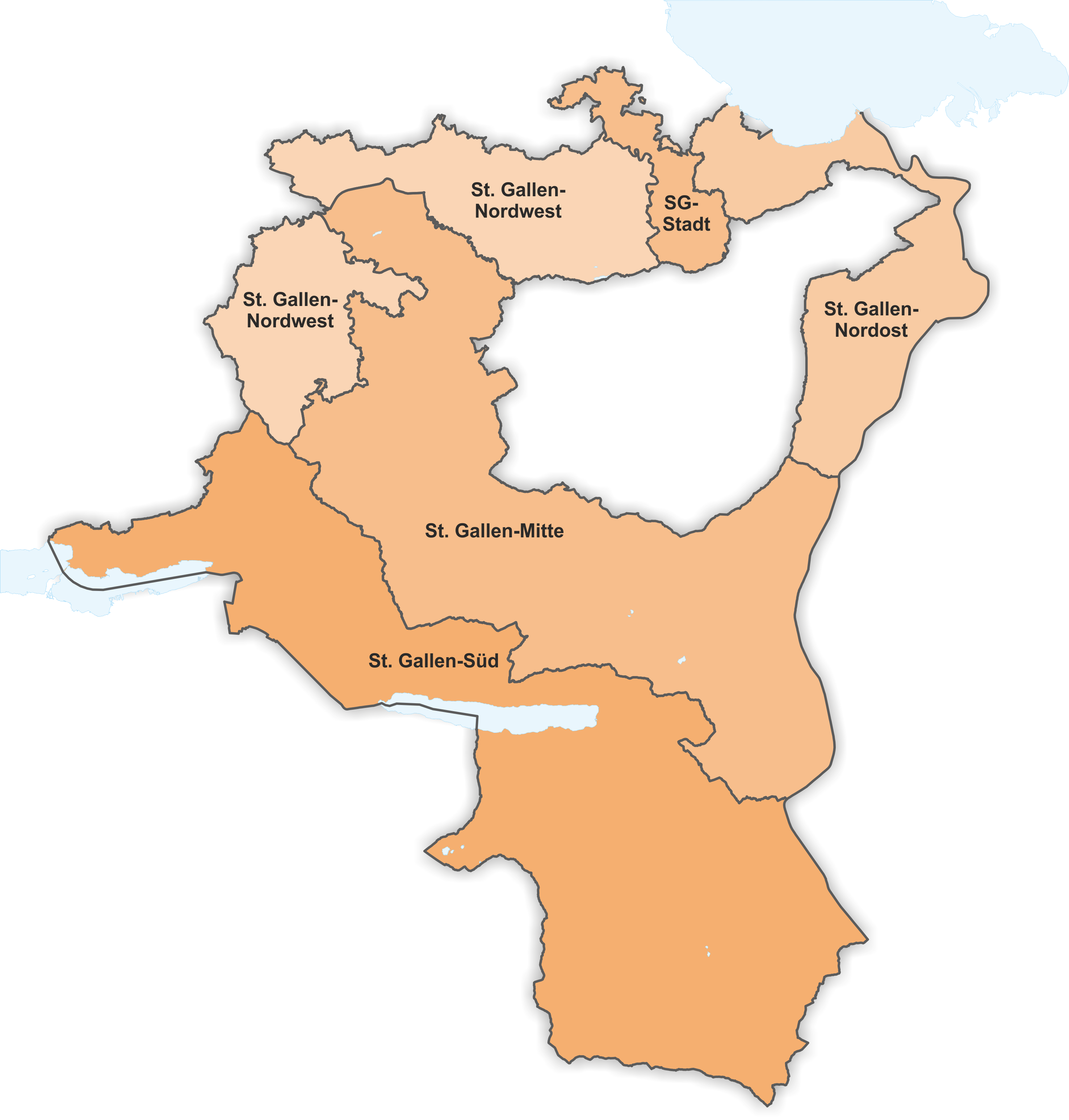 National council constituencies in the canton of St. Gallen from 1890 to 1899